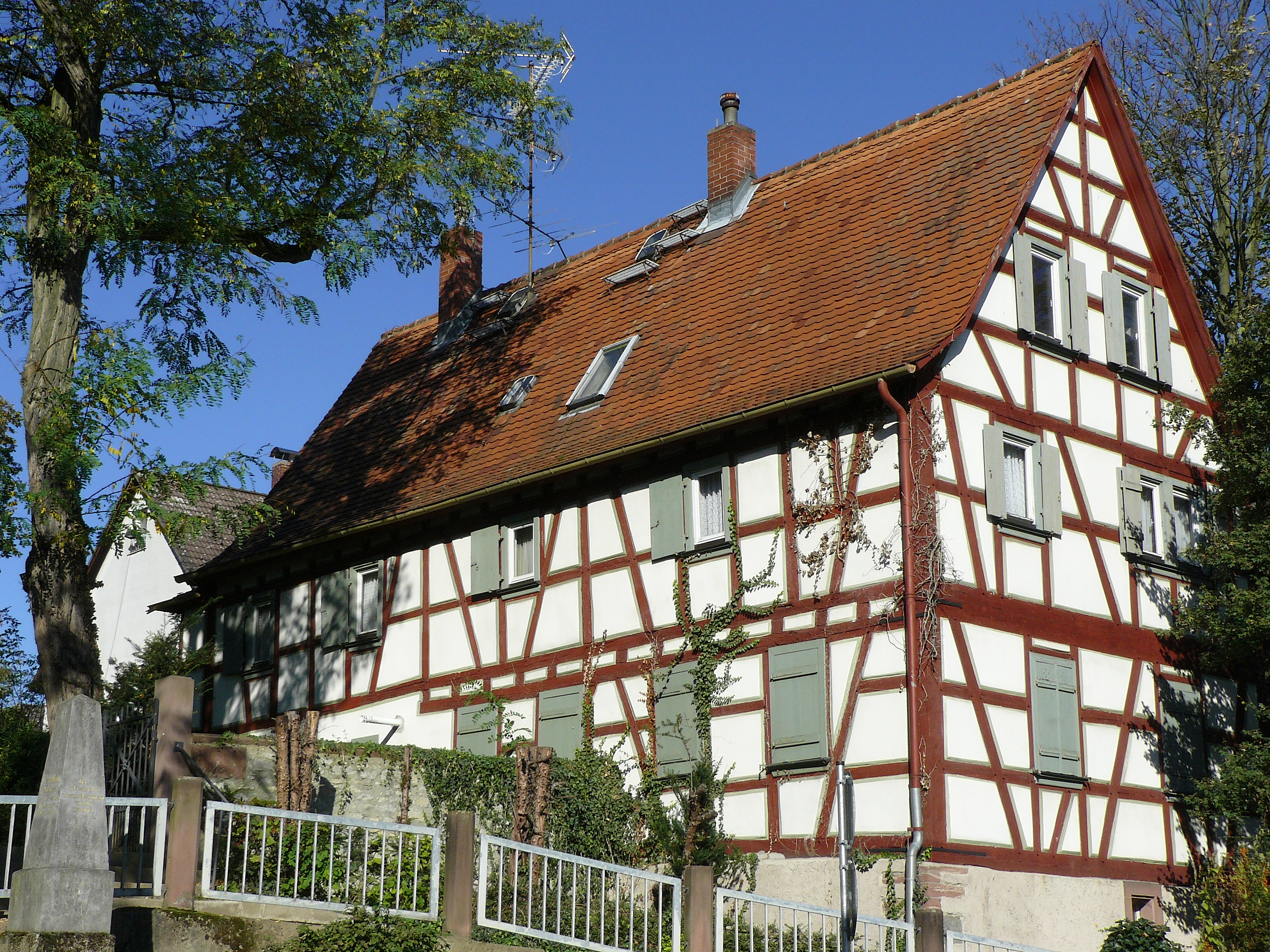 Old Lutheran School of Seckbach (1709), today a private home in the borrough of Seckbach, Frankfurt, Hesse, Germany